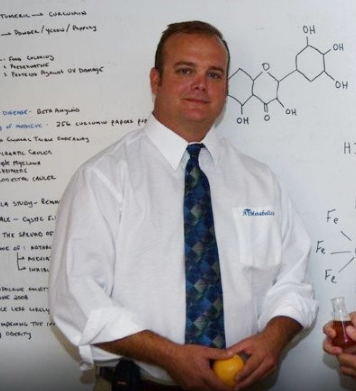 Photo of Daryl L Thompson